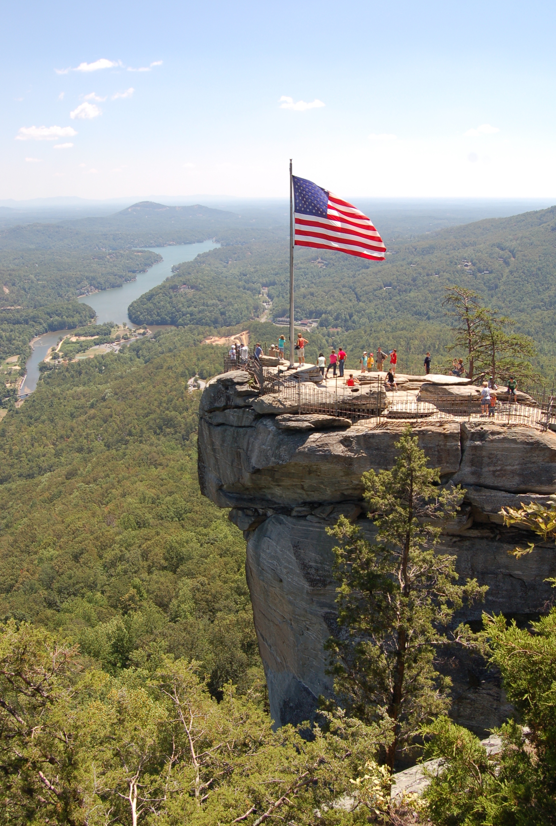 Chimney Rock State Park looking east towards Lake Lure. Taken on Monday, 11 August 2008 from the Opera Box observation point, Chimney Rock, NC.